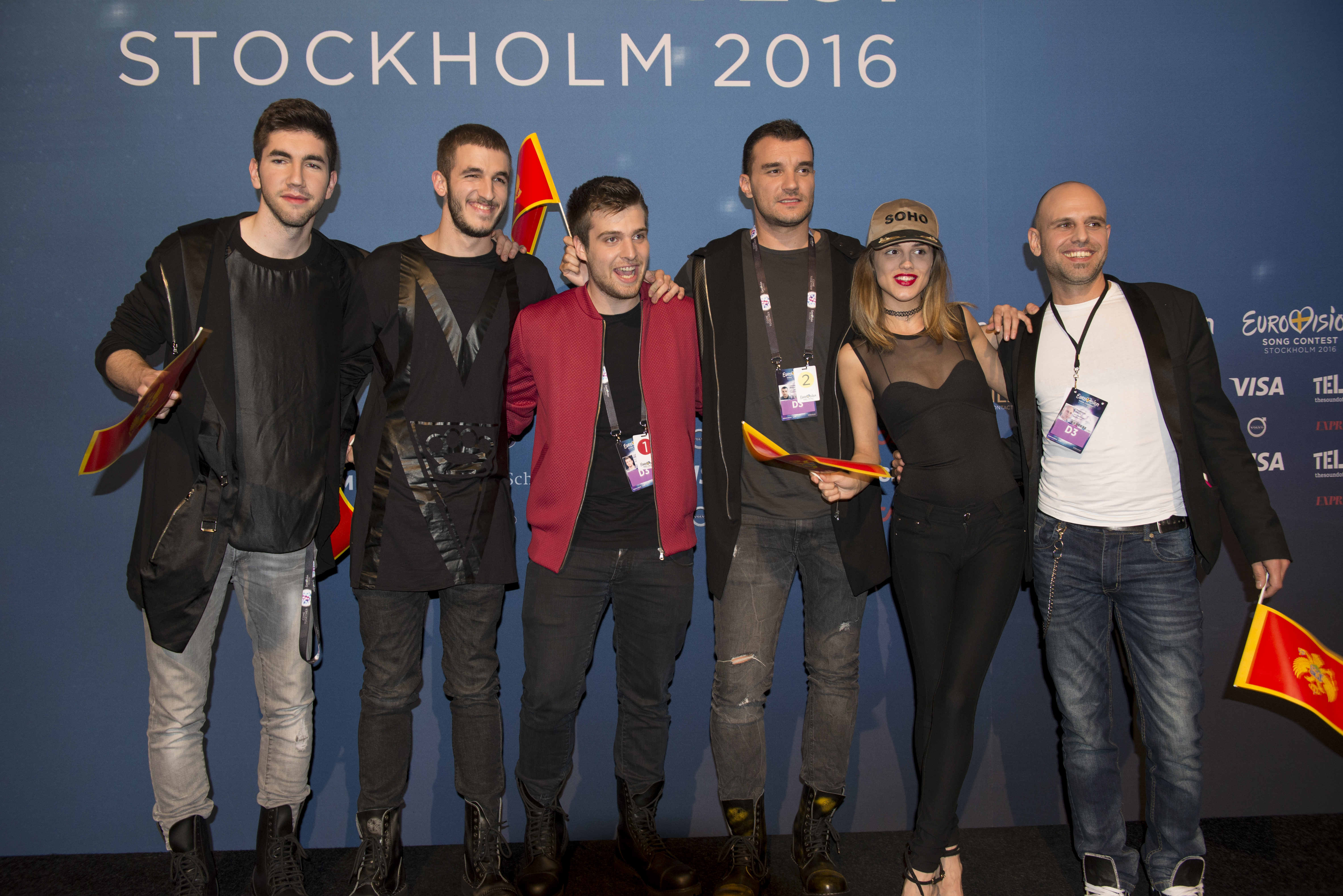 Highway at a Meet & Greet during the Eurovision Song Contest 2016 in Stockholm. (Help translate this text)